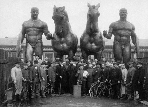 Dioskouroi statue from the Embassy of Germany in Saint Petersburg